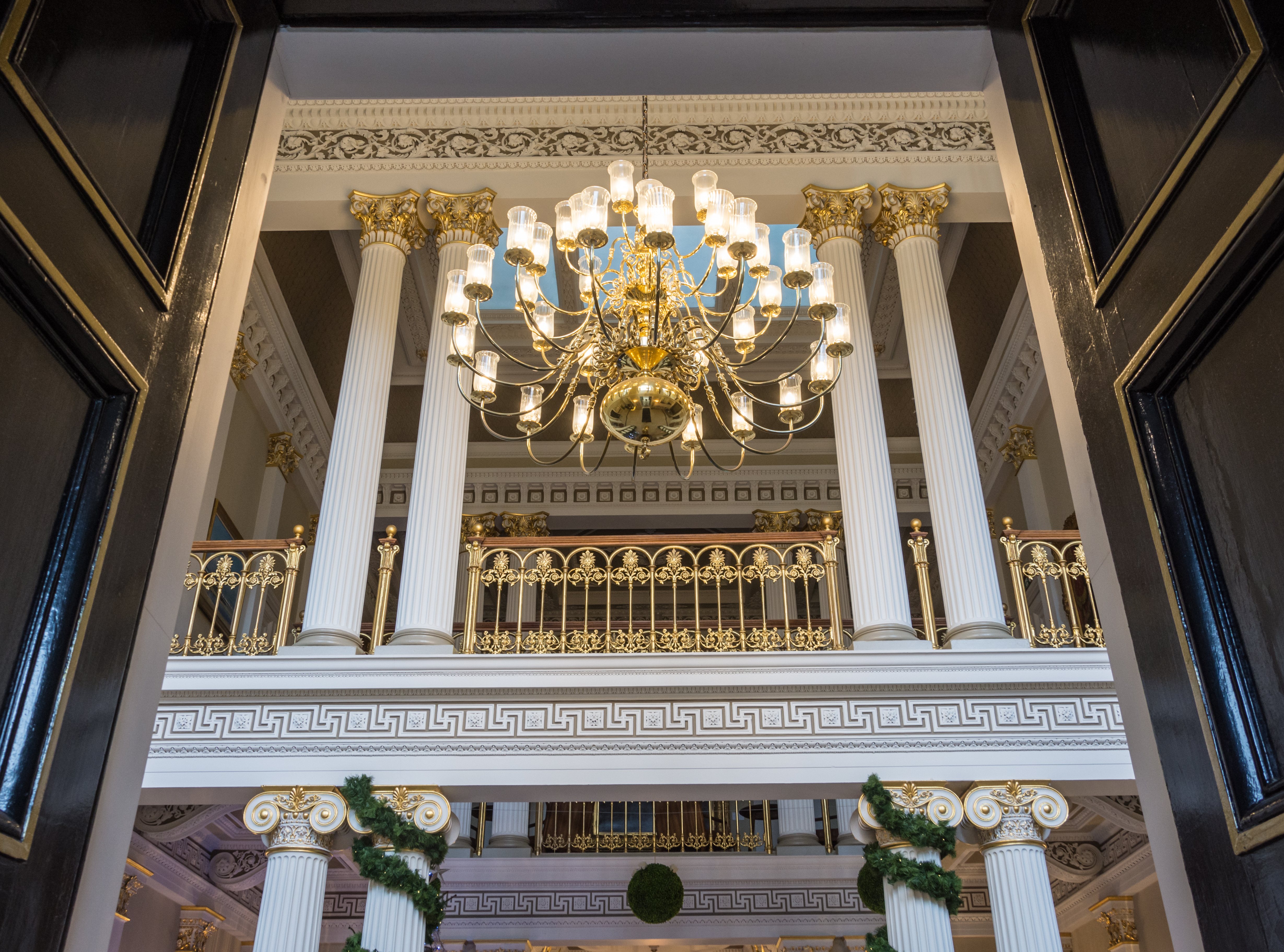 Bank of Scotland building, St Andrews Square, Edinburgh